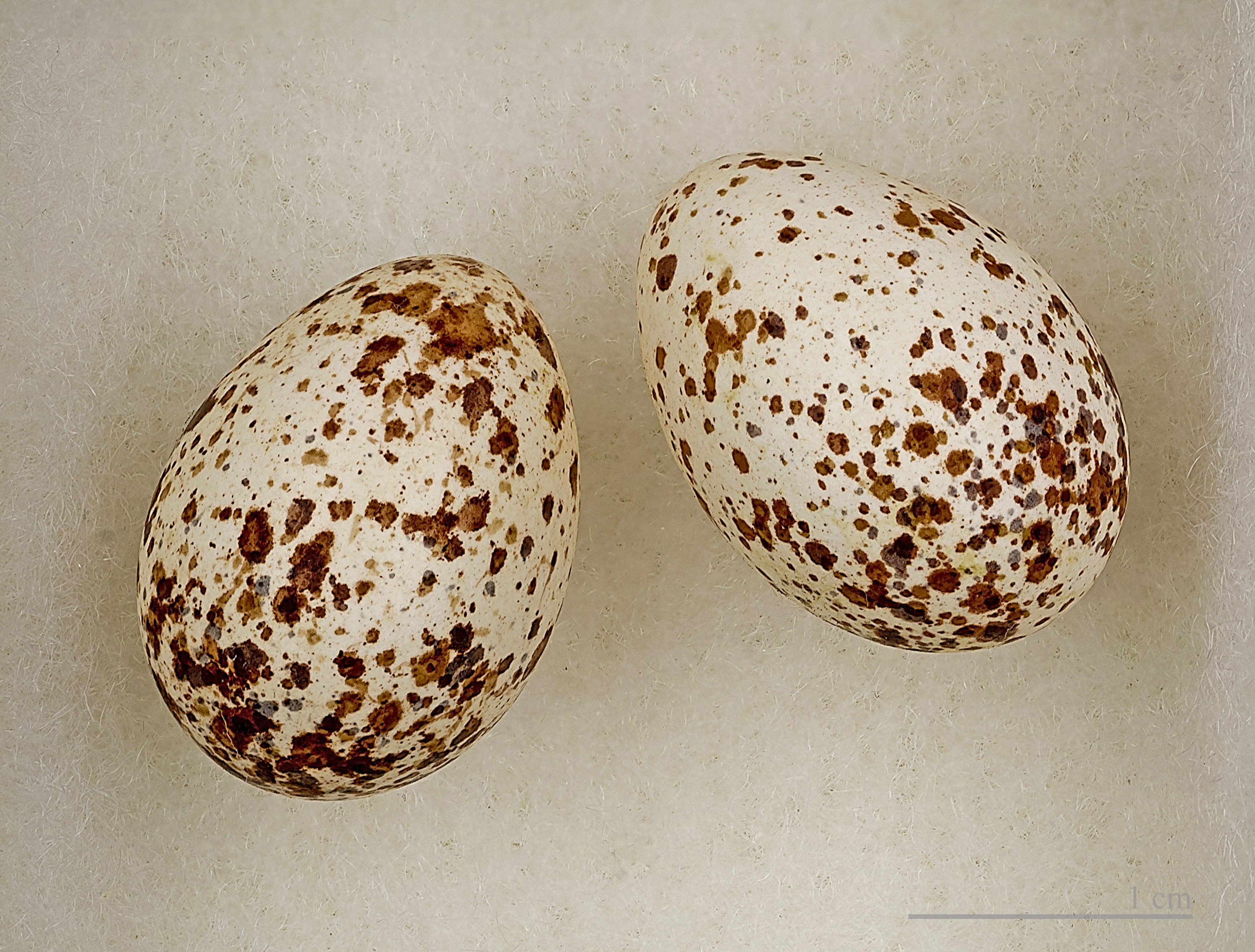 Egg of Angola Swallow. Collection of Jacques Perrin de Brichambaut.